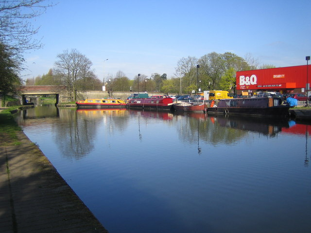 Grand Union Canal: at Hemel Hempstead The canal basin viewed looking towards the Two Waters Road bridge, with 156627 just visible through the bridge.